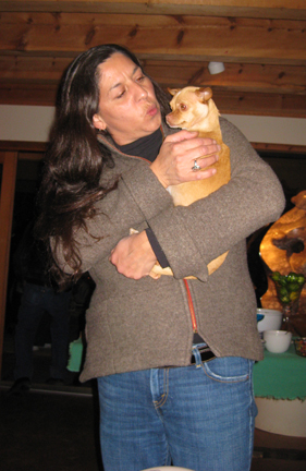 Tammy Rahr, Cayuga bead artist, with canine friend